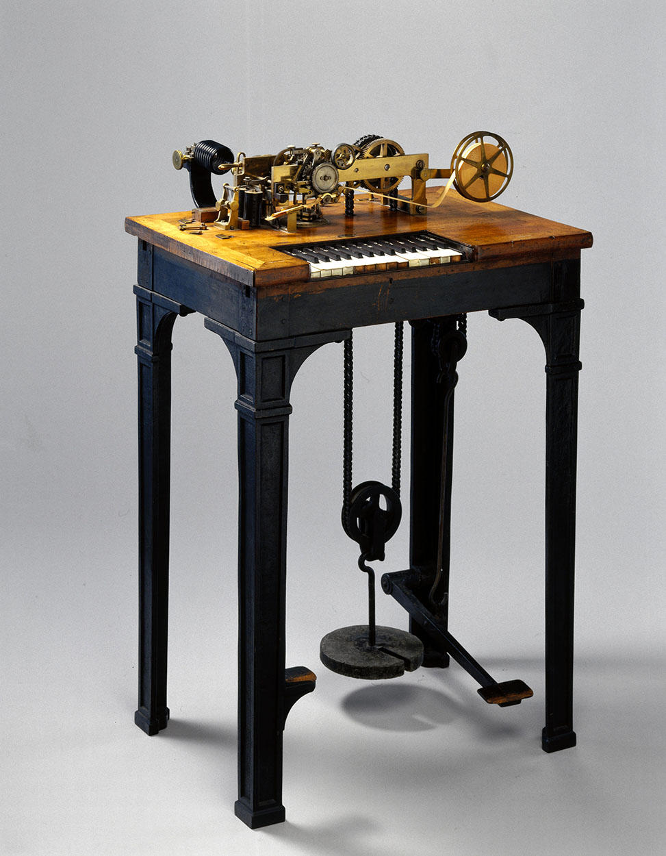 The British physicist David Edward Hughes (1831-1900) was born in Wales but emigrated to the United States, where he invented this successful telegraph in 1855. It was the first telegraph system which printed the text at the sending and receiving ends, thus abolishing the need for a special alphabetic code. The telegraph employs synchronised type-wheels at each end of the line. Pressing the keys raises pins opposite the required letters. When a pin makes contact, a hammer at the far end pushes the paper against the type-wheel there and prints the corresponding letter. An experienced operator could send messages of up to 30 words a minute using this telegraph. The system was mainly used on cable routes from Britain to Europe.